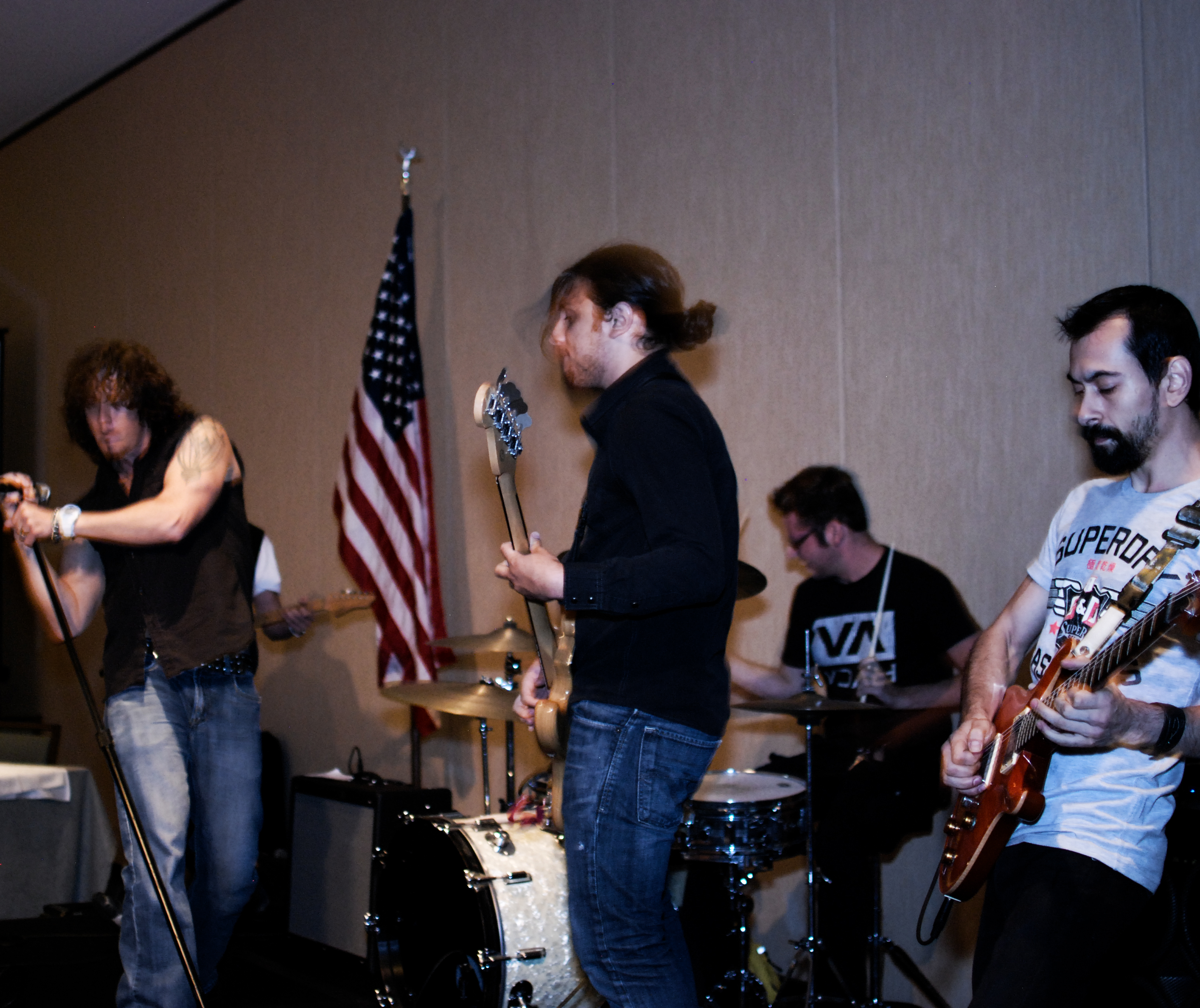 The patriotic band Madison Rising performing in Alexandria, Virginia in July 2012